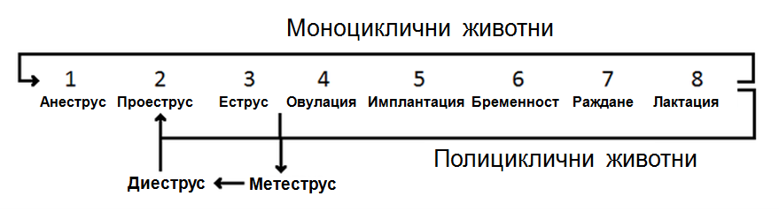 I am the creator of this file and give permission to anyone to modify or distribute this image.